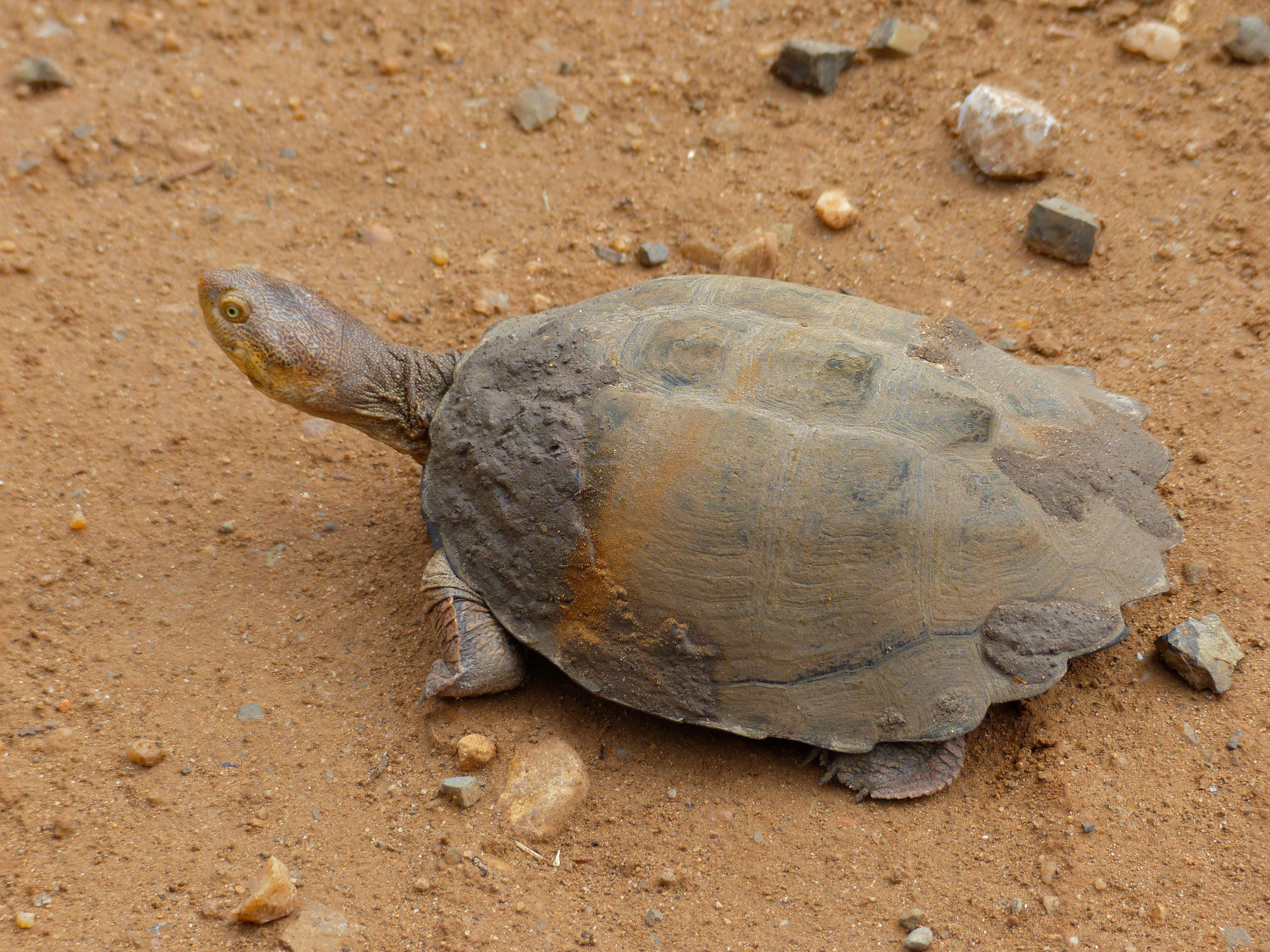 S62 Road North of Letaba, Kruger NP, SOUTH AFRICA